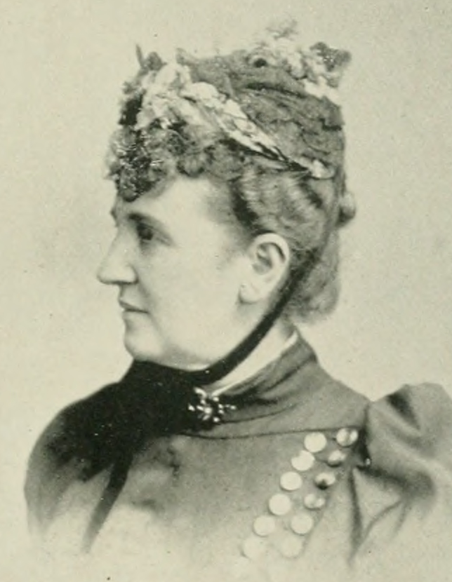 Sara Hershey-Eddy